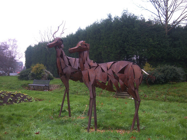 Stag and Doe Statues Situated on the corner of the A659 and Station Road, Tadcaster. The statues are made from welded metal plates with twigs used for the stag's antlers.